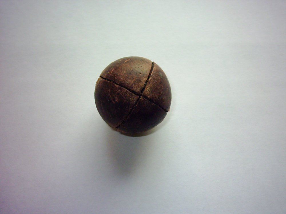 (Used) "vaqueta" ball for playing "Escala i corda" or "Raspall" ("Valencian pilota" modalities)